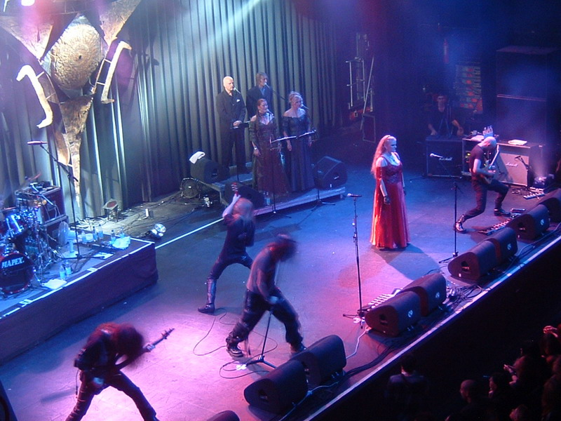 Therion Tilburg, Netherlands, November 2, 2004